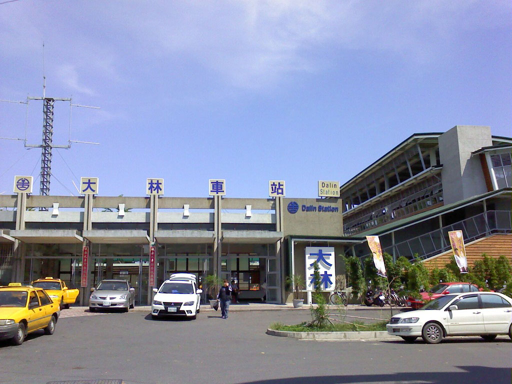 TRA Dalin Station with new station building, located at DaLin Town, ChiaYi County, Taiwan. The new cross-railway station building has been finished and opened at Dec 5, 2008.